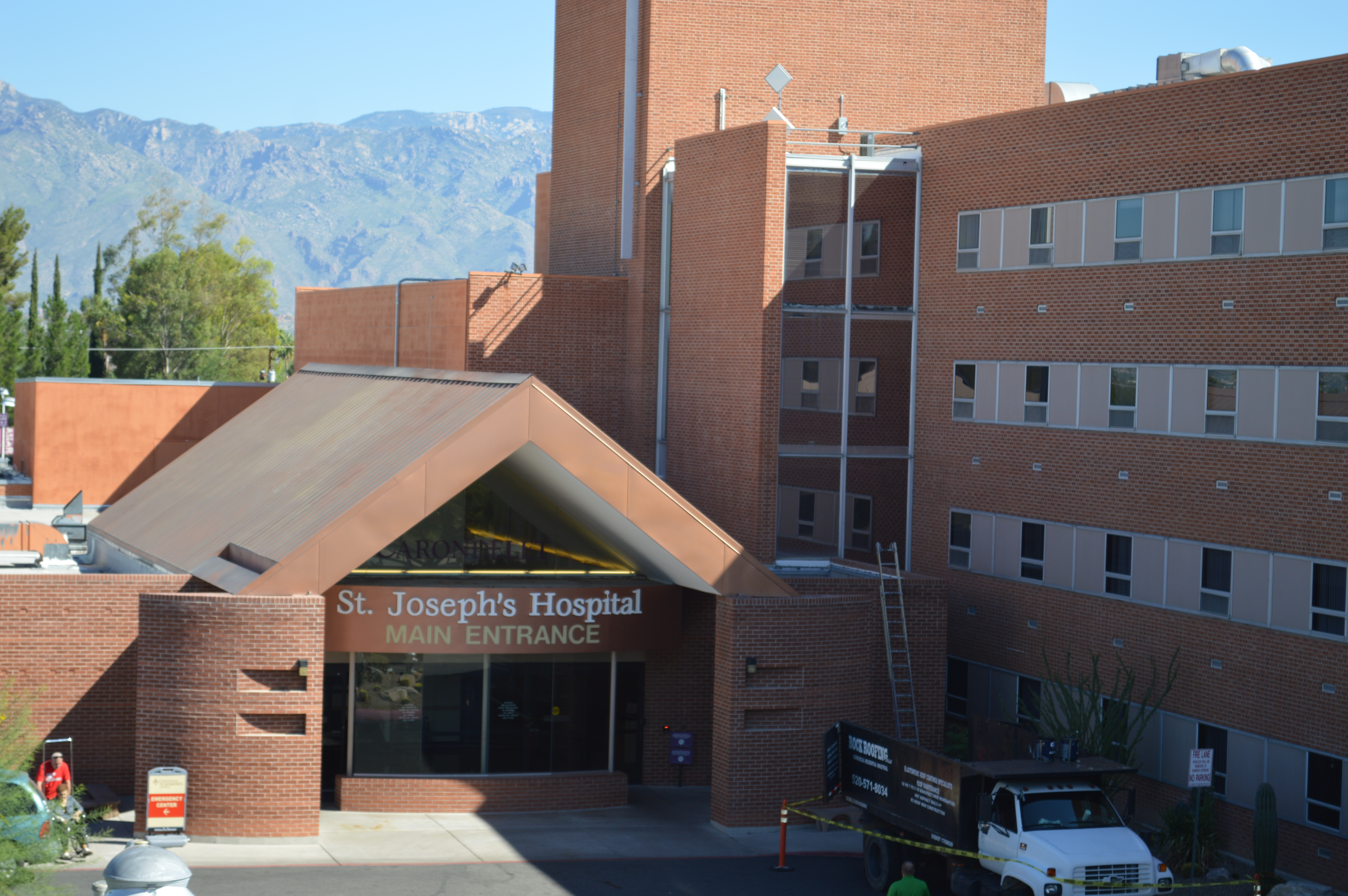 The front entrance to St. Joseph's Medical Center in Tucson, Arizona. Picture taken from the top of the neighboring parking garage.